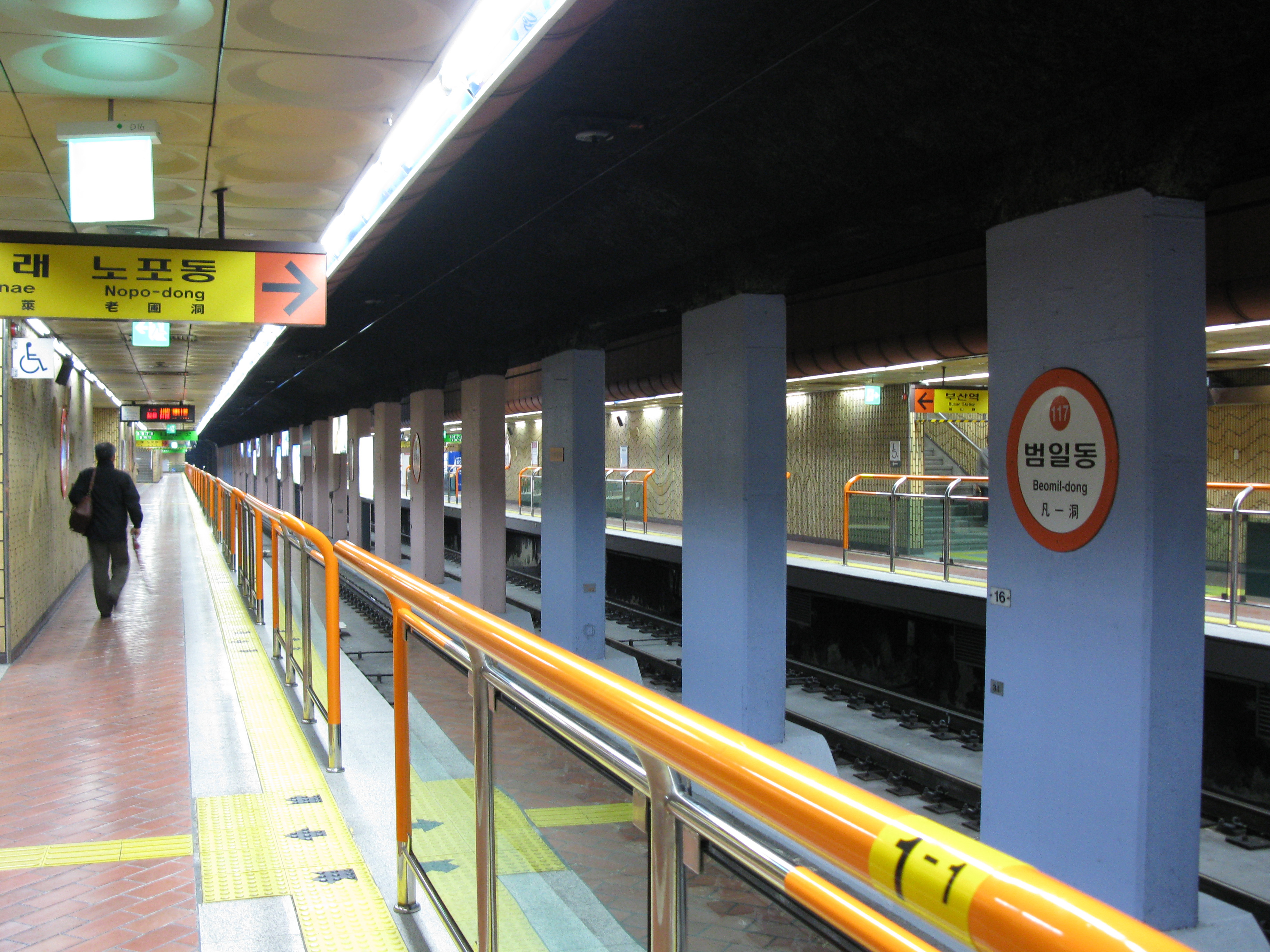 Beomil-dong Station platform (Busan Subway Line 1)